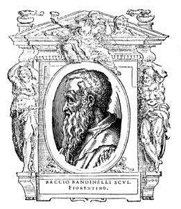 Illustratio from "Le Vite" by Giorgio Vasari, edition of 1568. For the artist portrayed see filename